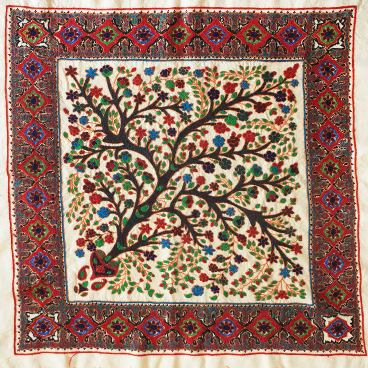 FarWayArt Persian Suzani called Pateh.